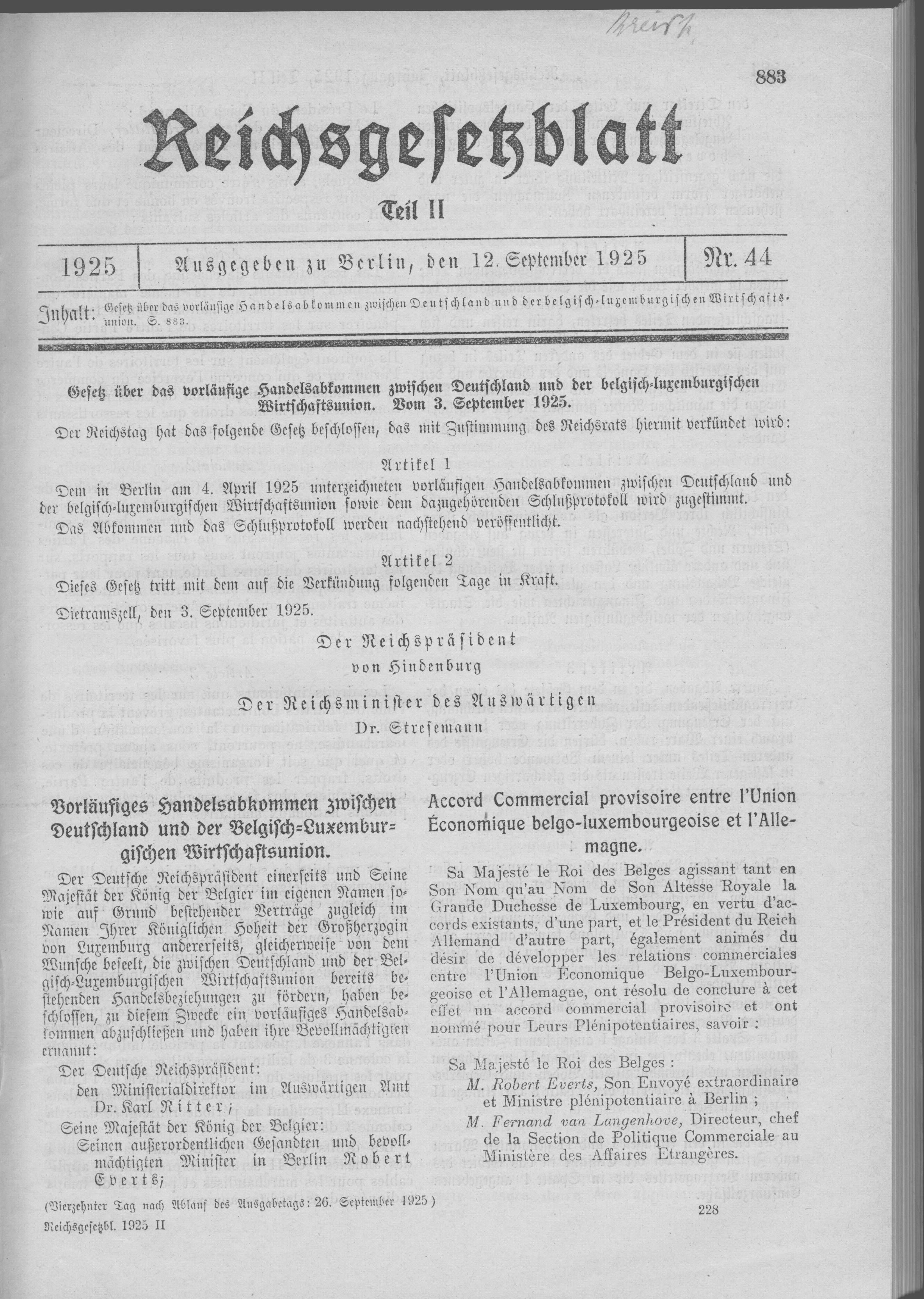 Scan from the Imperial Law Gazette of Germany, 1925, part 2